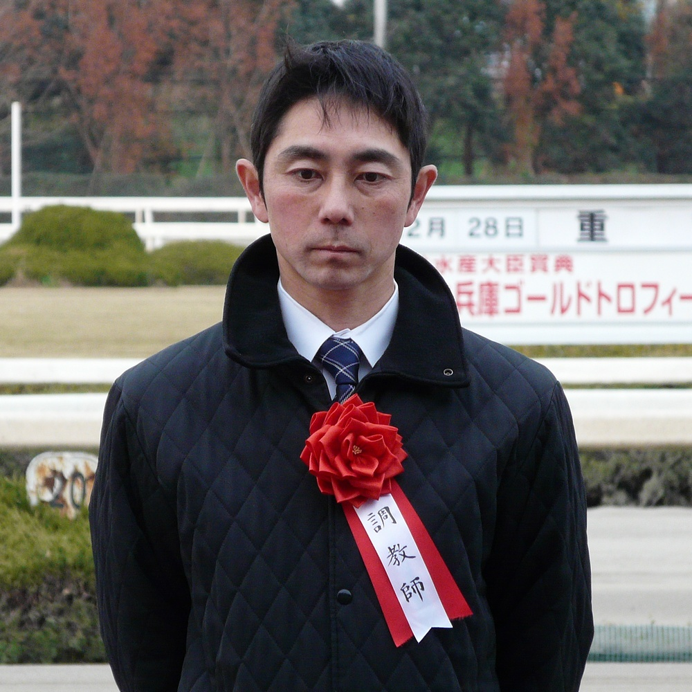 Naohiro-Yoshida20111228